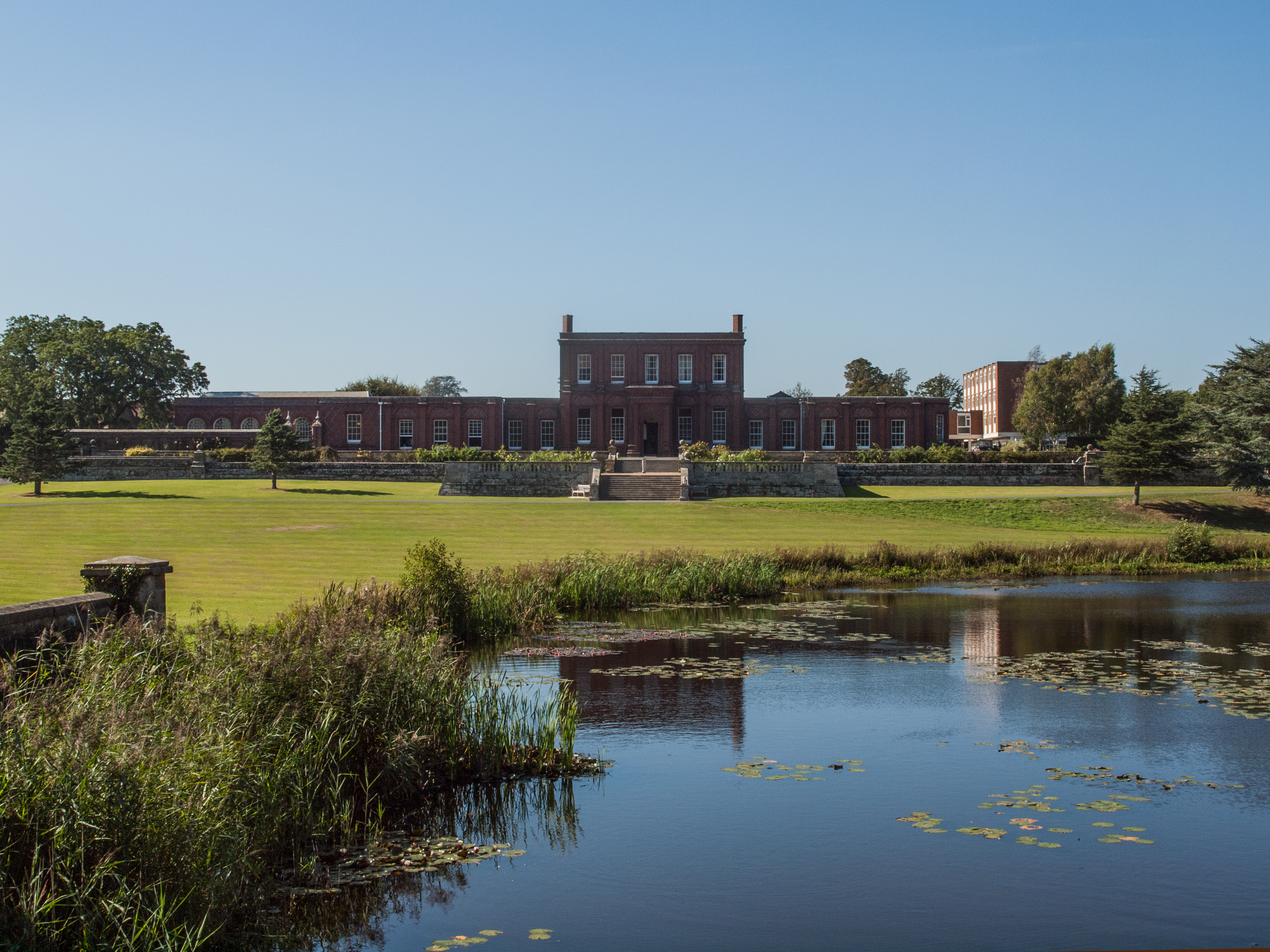 You see Front Water Lake in the right part of the Picture. In the Background you see Ashburnham Place.